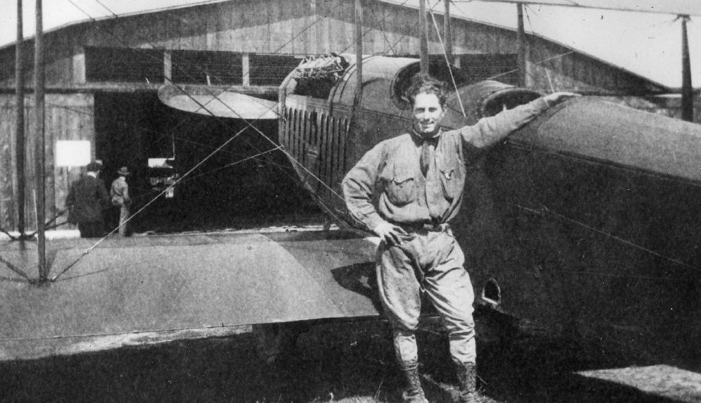 Al Wilson standing in front of his Curtiss JN-4 "Jenny".